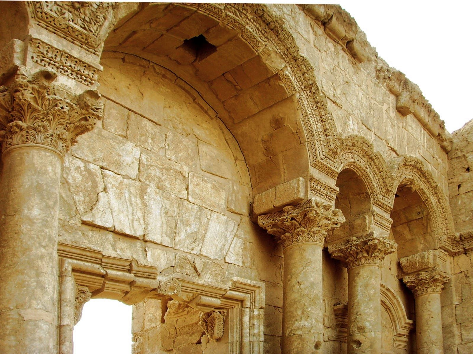 Resafa